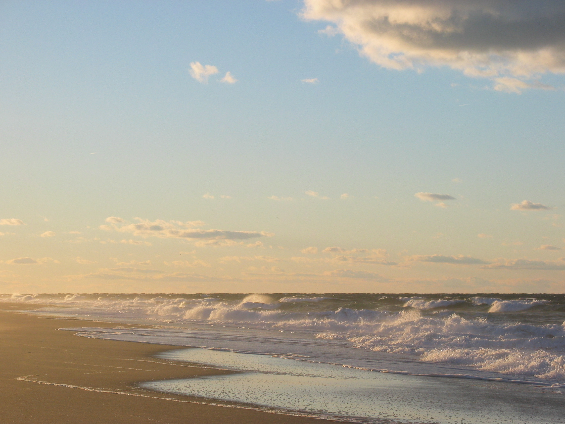 Cape Cod beach at sunset, Race Point Beach